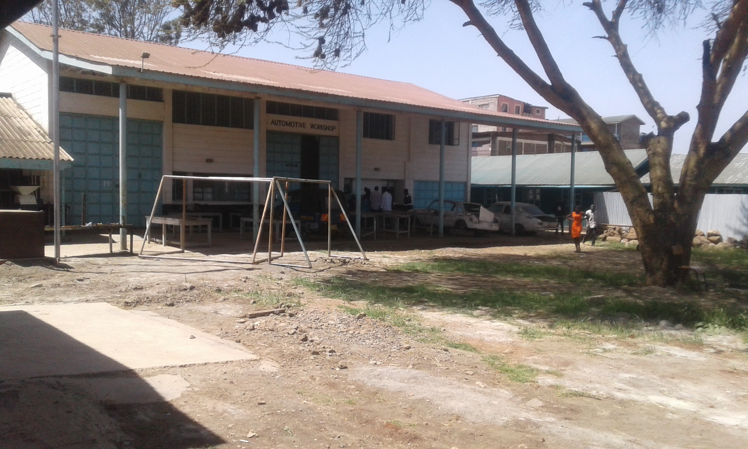 This is a photo of the main automotive workshop in kinyanjui technical.